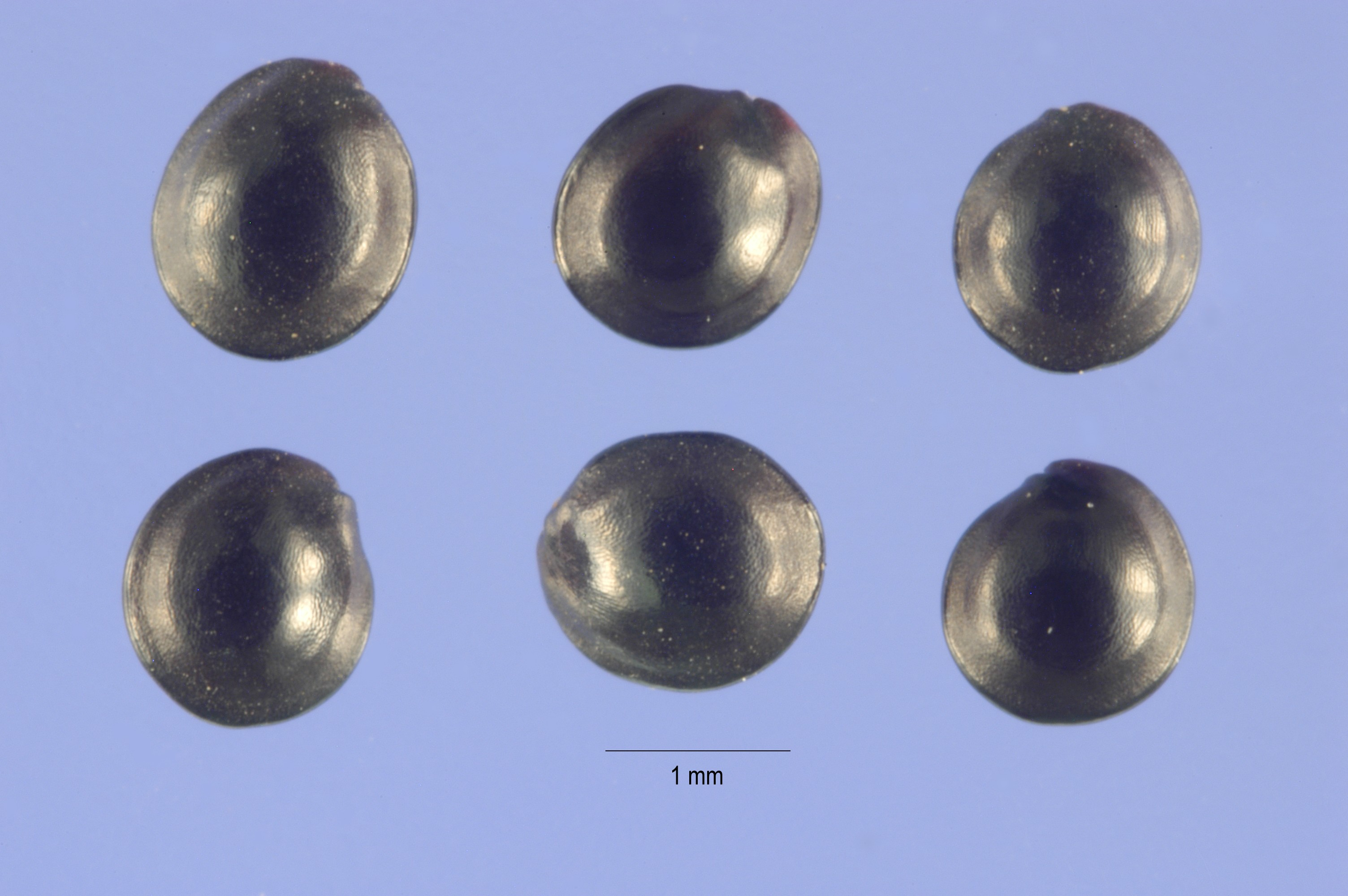 Amaranthus blitoides seeds